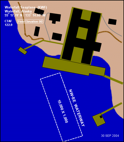 Diagram of Waterfall Seaplane Base (FAA: KWF) in Alaska, United States